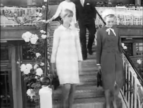 Frame from video showing Jean Shrimpton (left) in her her controversially short dress.